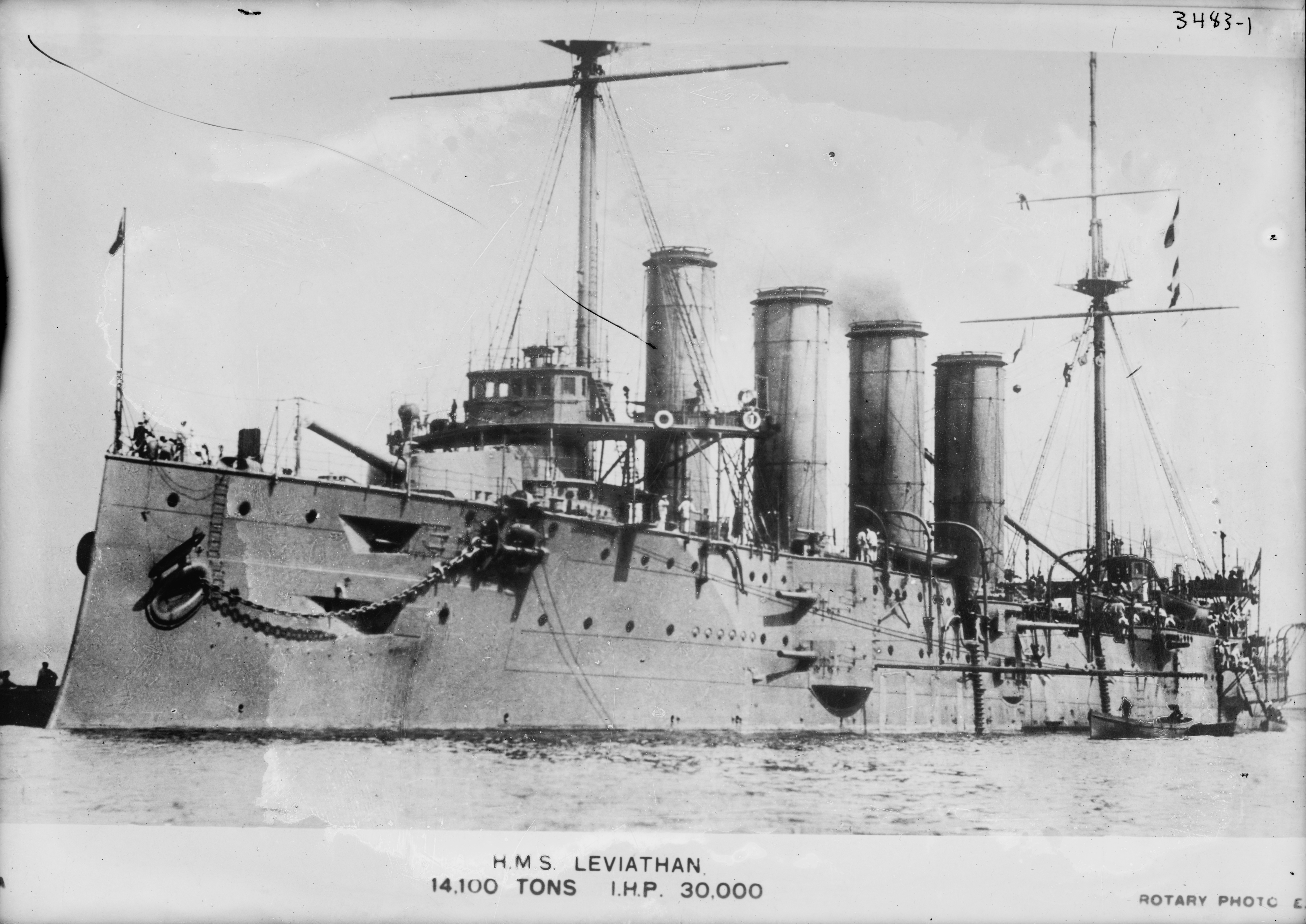 HMS Leviathan, a British Drake-class armoured cruiser.